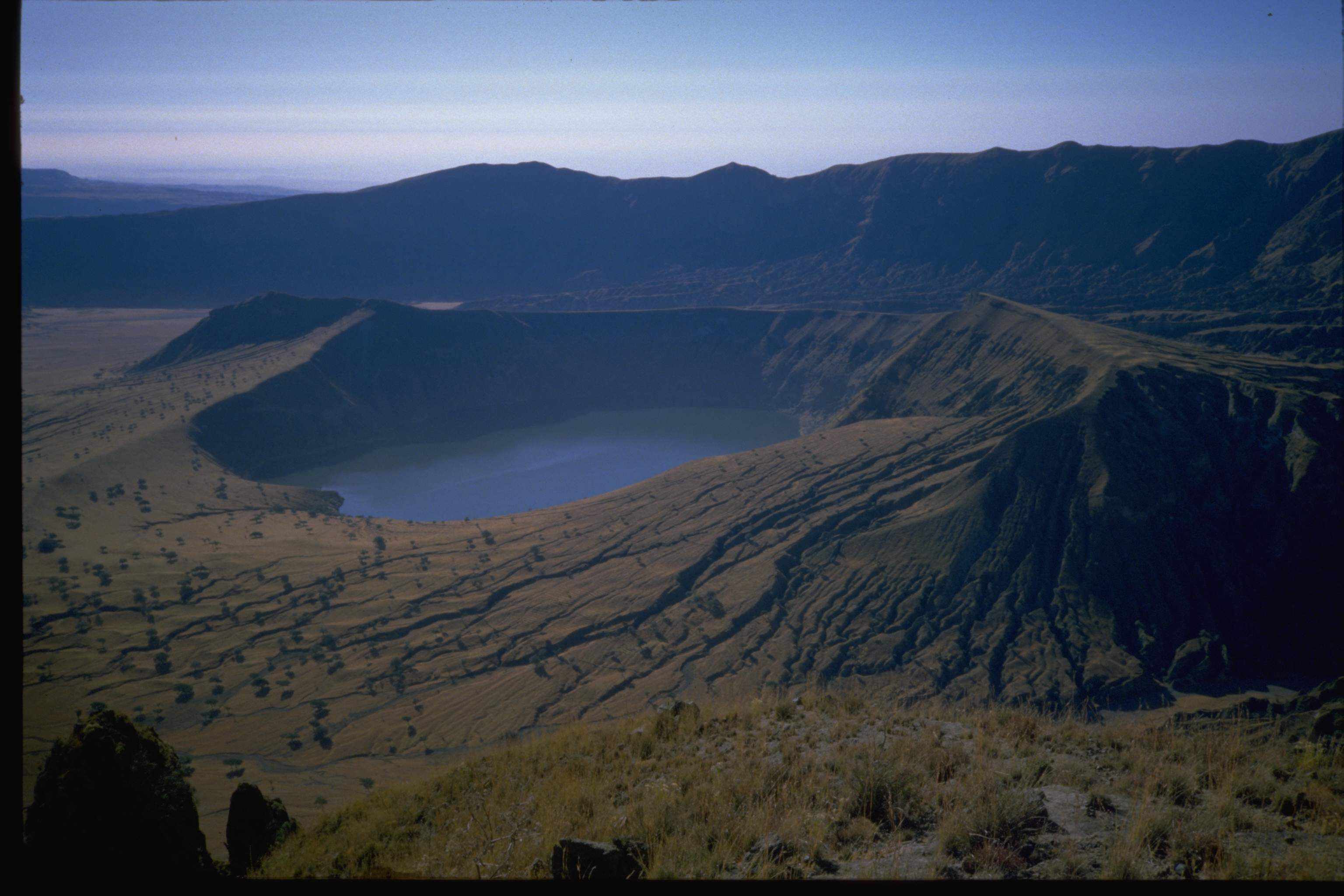 Inner and outer crater, Deriba Crater, Jebel Marra, Darfur, Sudan. Rises to either 3,042 m (9,980 ft) or 10,130 ft (3,088 m).